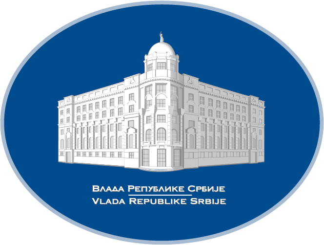 Logo of Government of Republic of Serbia.